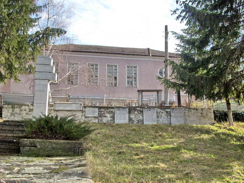 Village Zvezda, Targovishte District, Bulgaria. The war memorial and the People's library behind it.